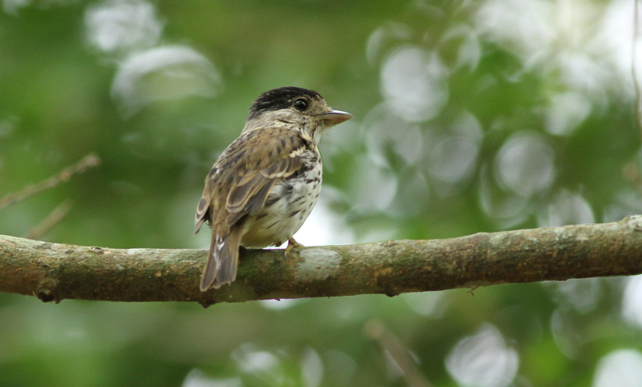 African broadbill, Smithornis capensis, at uMkhuze Game Reserve, kwaZulu-Natal, South Africa